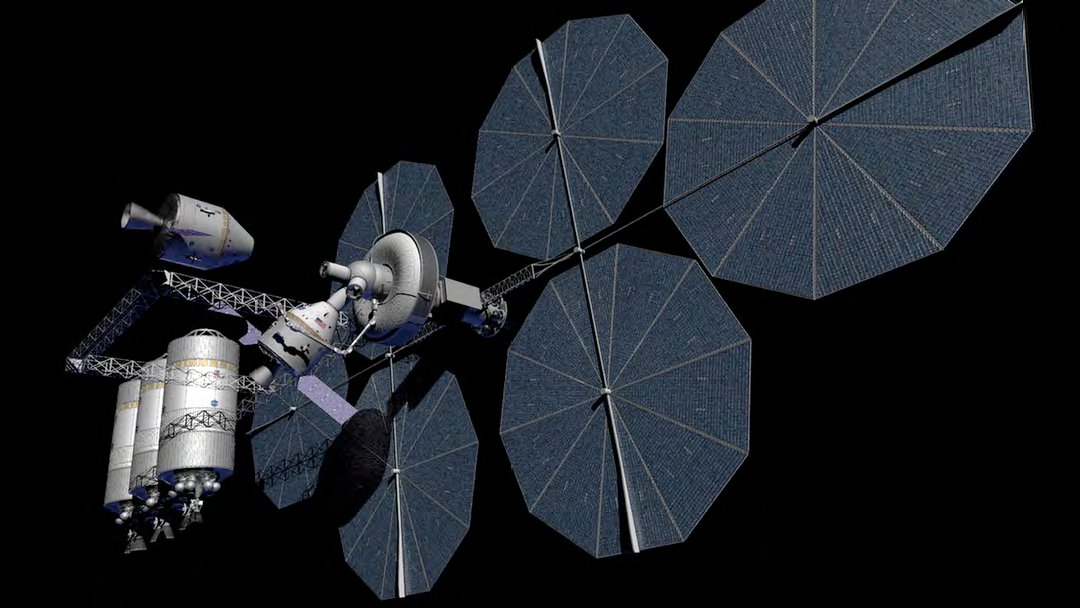 A depot capability could evolve, starting with Liquid Oxygen (LOX), the heaviest propellant, adding Liquid Hydrogen (LH2) or Hydrocarbons later to increase performance. Depots could be increased in size, adding more tanks or more fuel, as needed. Once a Lunar ISRU processor has been developed, a depot could be built at one of the Earth-Moon Lagrange Points. Propellant could be supplied from the Moon at a significant reduction in performance than bringing it from Earth. Later depots can be added supported by ISRU as we move out in space.